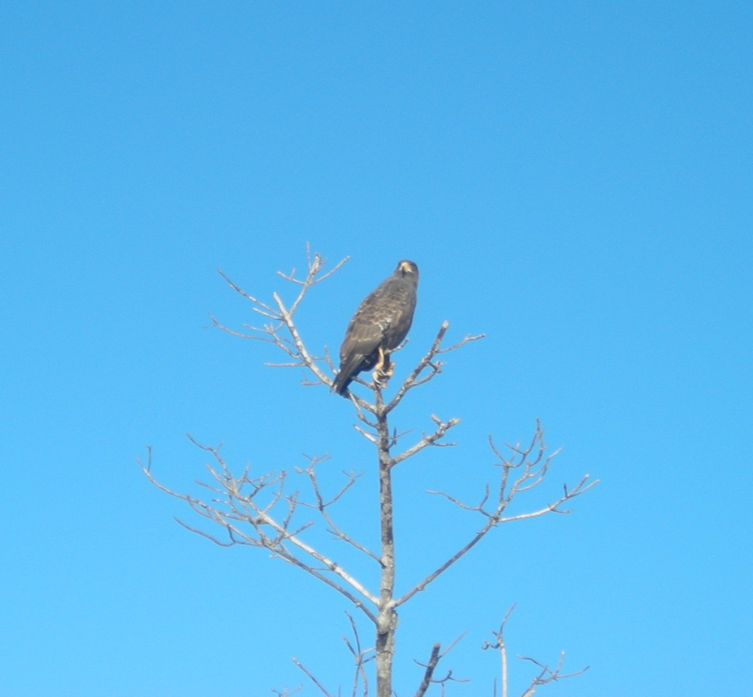 Cuban Black Hawk (Buteogallus gundlachii) in Cayo Largo, Cuba